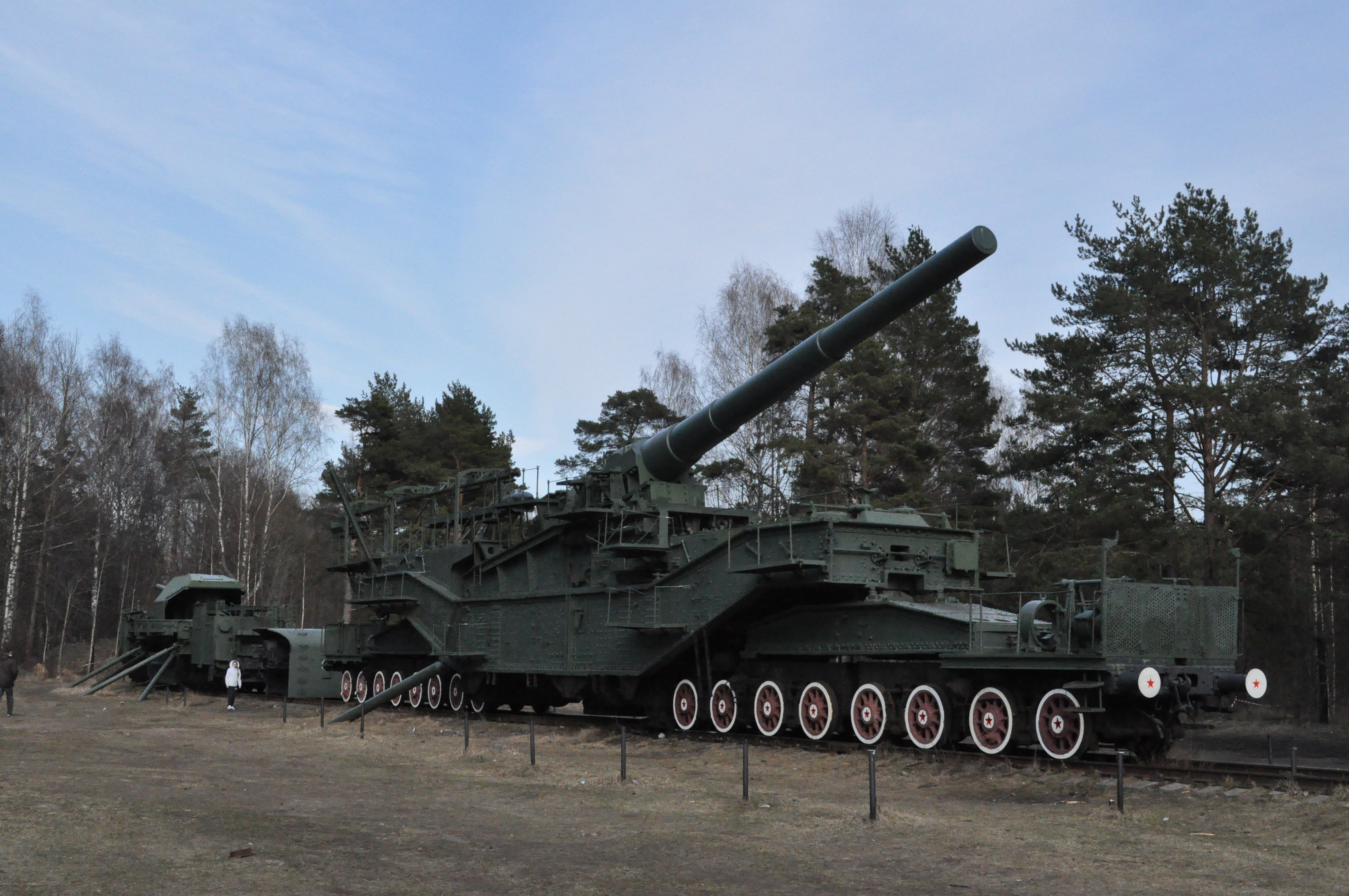 305-mm railroad gun TM-3-12 in Krasnaya Gorka fort